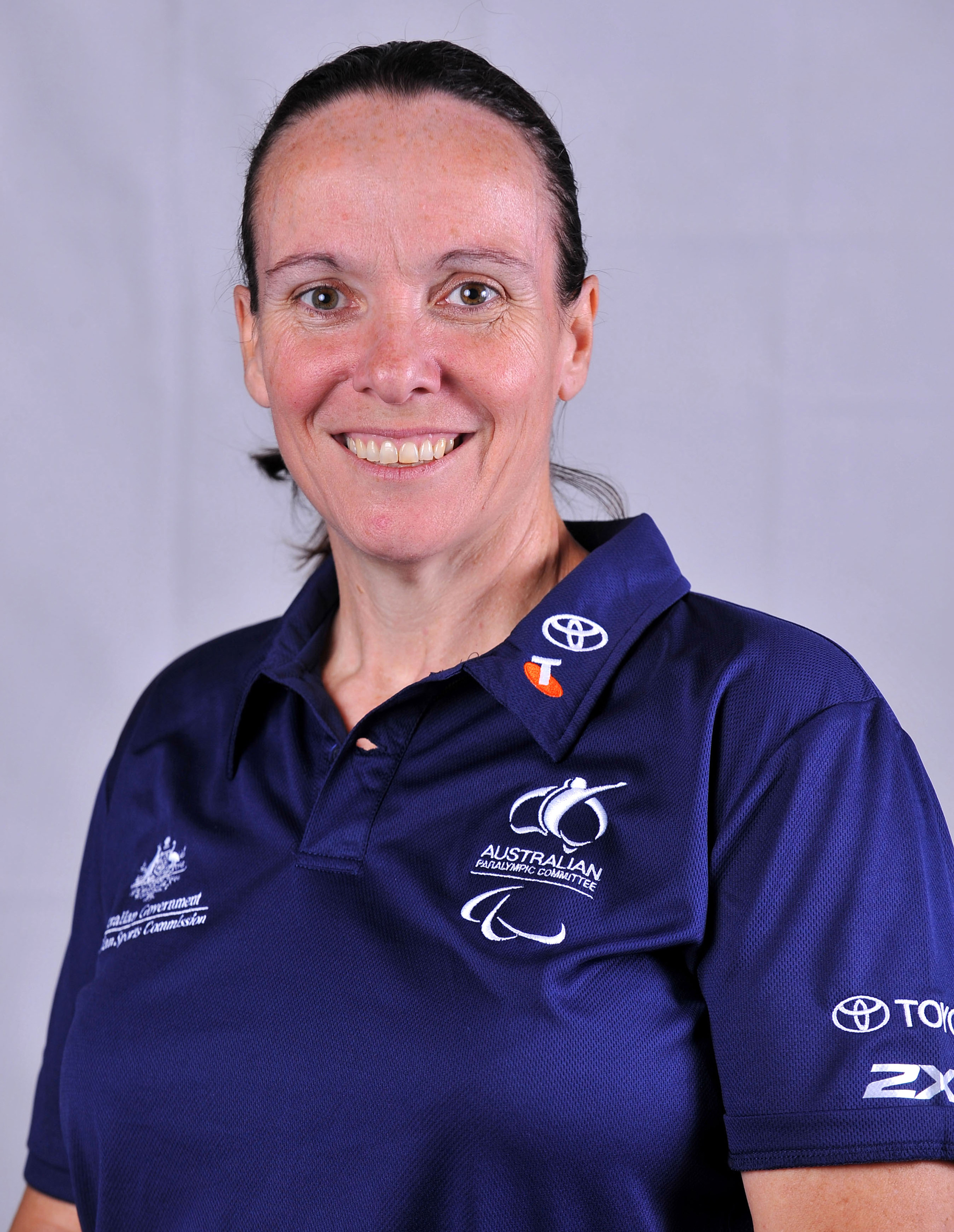 Portrait of Australian wheelchair basketballer Amanda Carter, 2012 Australian Paralympic (shadow) Team athlete